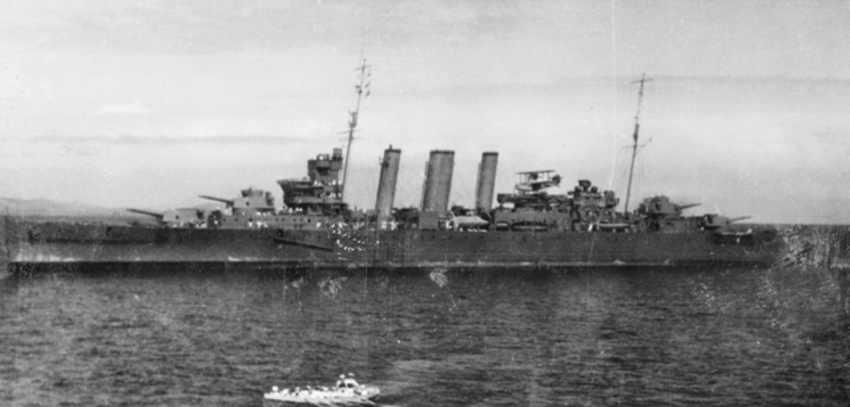 The Australian heavy cruiser HMAS Canberra (D33) off Tulagi, 7-8 August 1942.